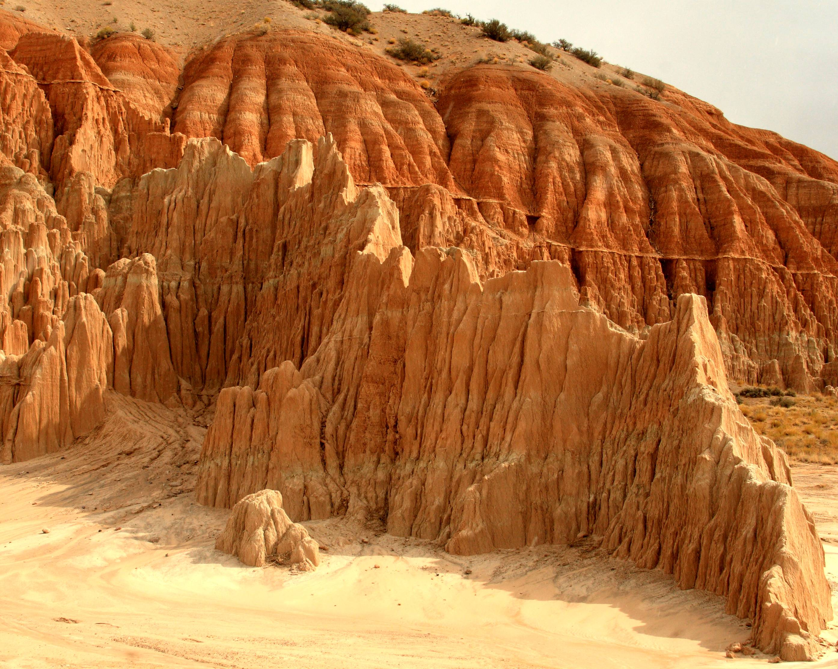 Cathedral Gorge State Park — about 80 miles south of Great Basin National Park in eastern Nevada and 80 miles west of Cedar City, Utah. Cathedral Gorge was formed by lake that dried up many years ago and wind and rain carved out the canyon. It is a little out of the way but well worth a detour. I took this photo on a snowy, cold day in October 2008.